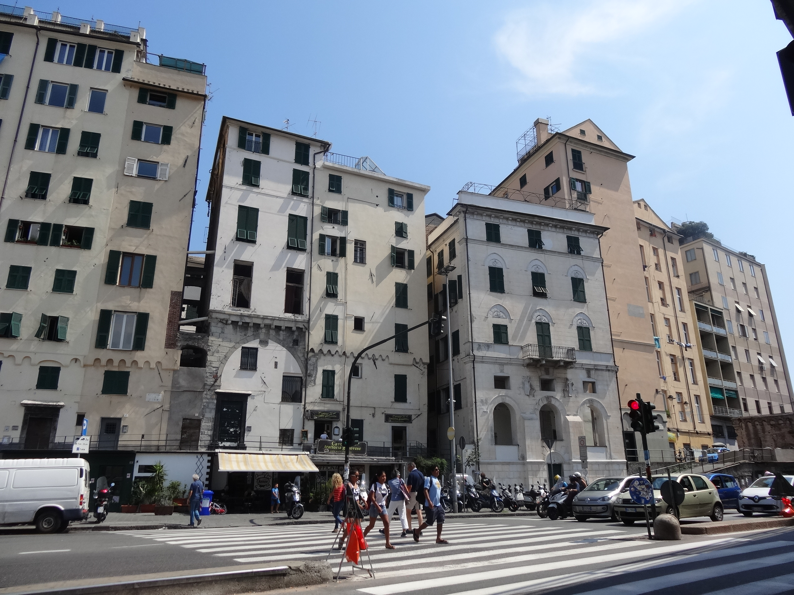 Genoa, Italy, district of Molo. Old buildings in Cavour Square